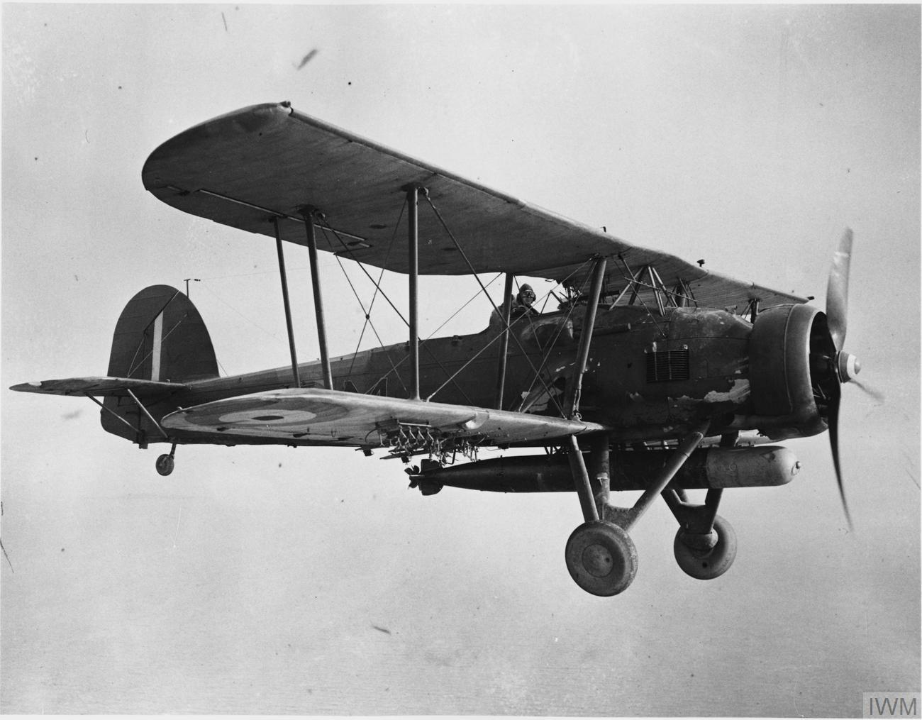 The Royal Navy during the Second World War No 785 Squadron, Fleet Air Arm: A Fairey Swordfish Mk I Naval torpedo aircraft during a training flight from Royal Naval Air Station Crail..